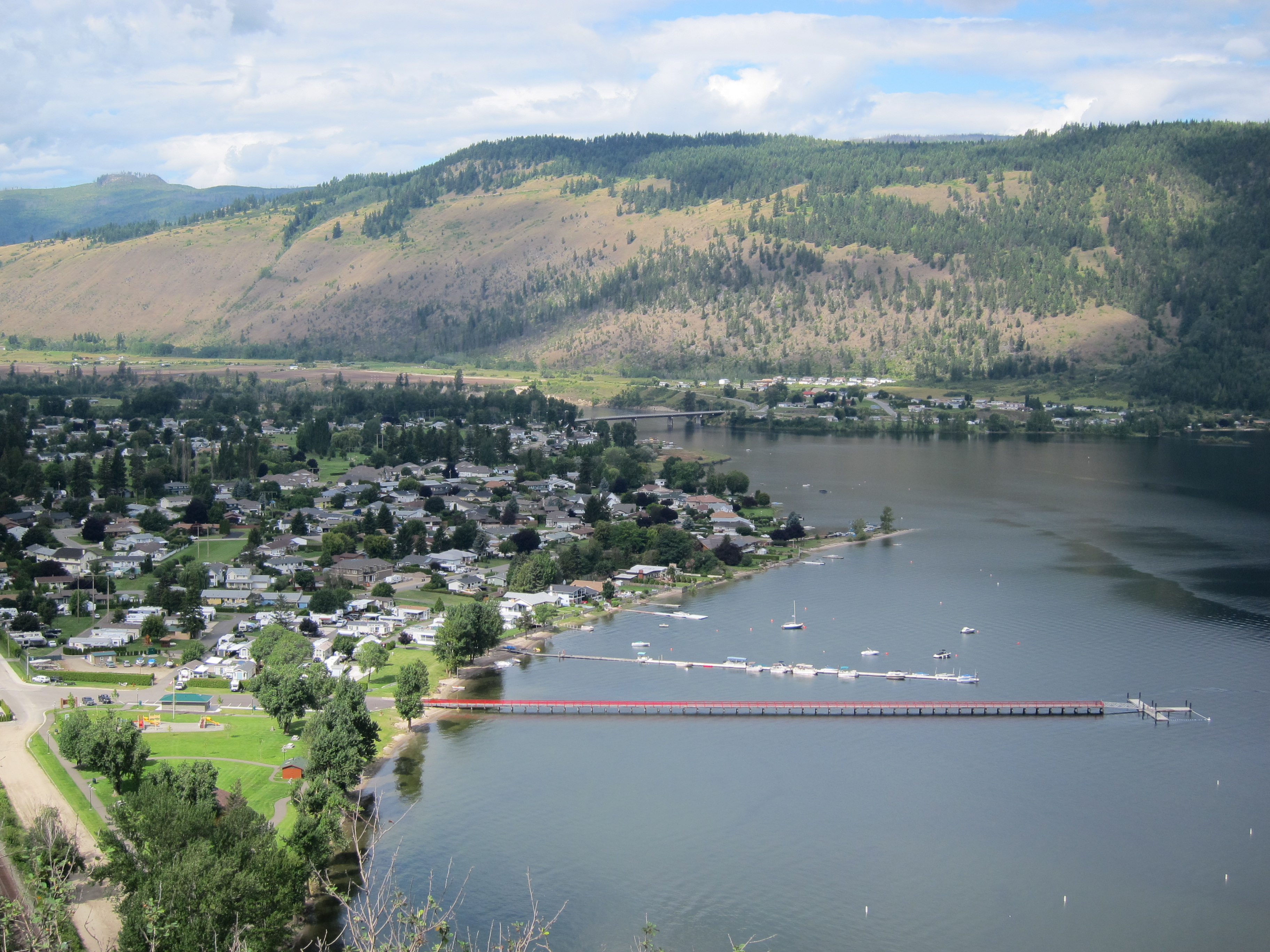 Waterfront area of Chase, British Columbia, Canada, taken from TransCanada Hwy east of the town